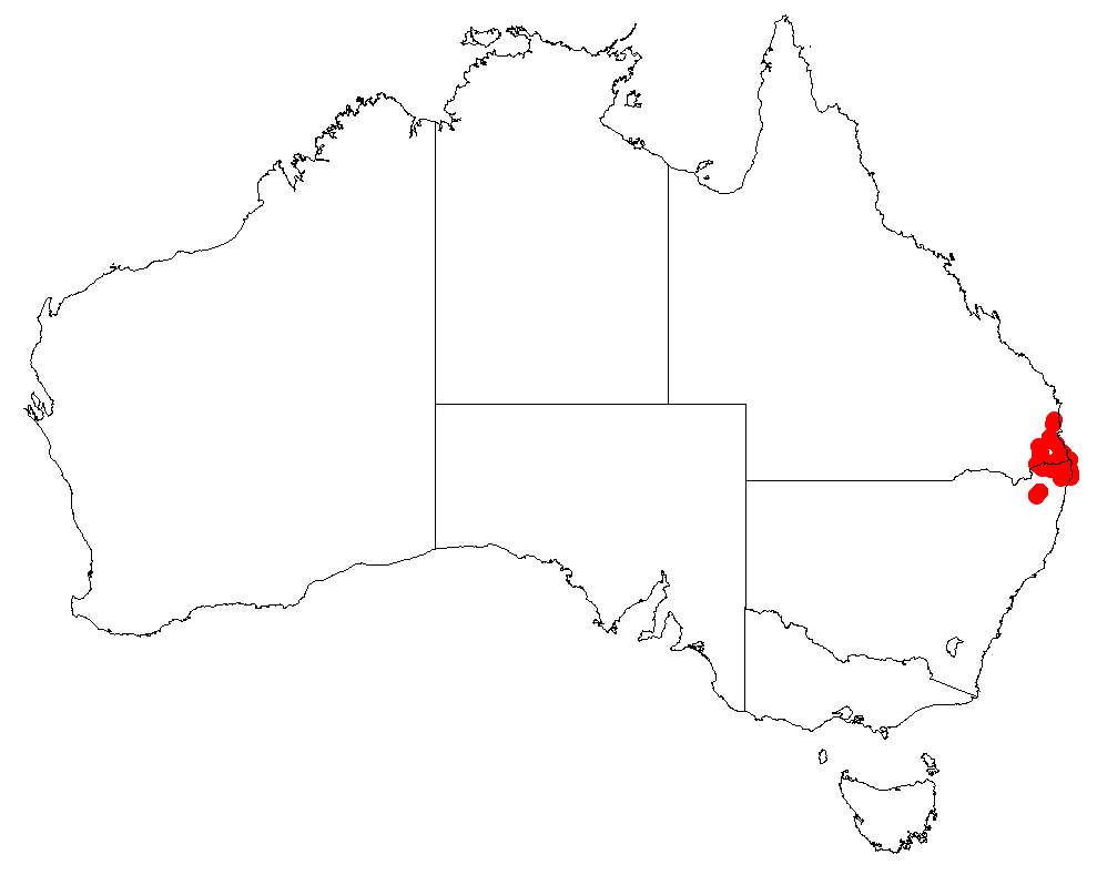 Parsonsia fulva Occurrence data for Australia from Australasian Virtual Herbarium downloaded 22 December 2018